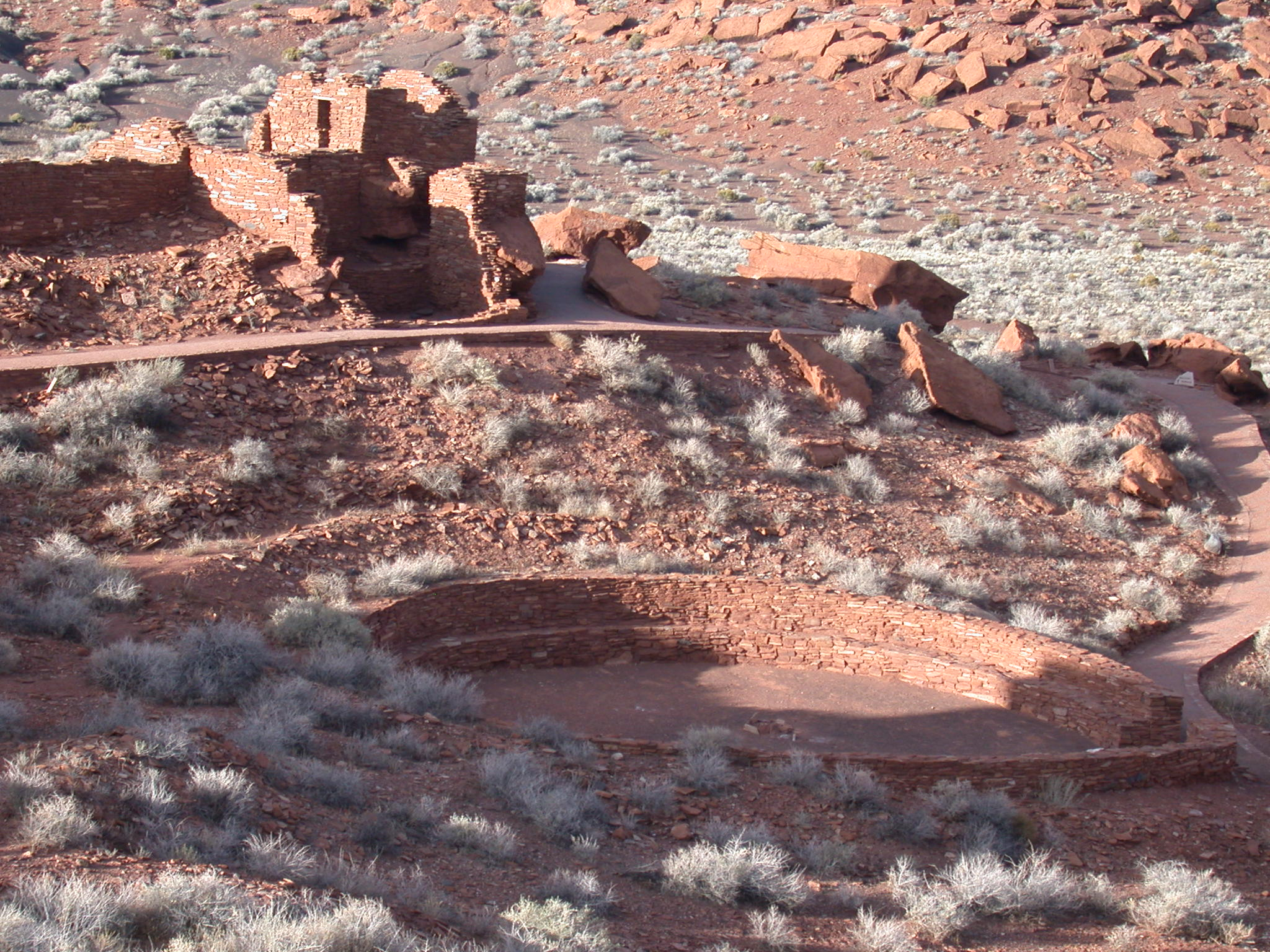 Wupatki National Monument, Arizona. The monument's namesake Wupatki Ruin (only a small part of which is visible) perches on a natural rock outcropping.